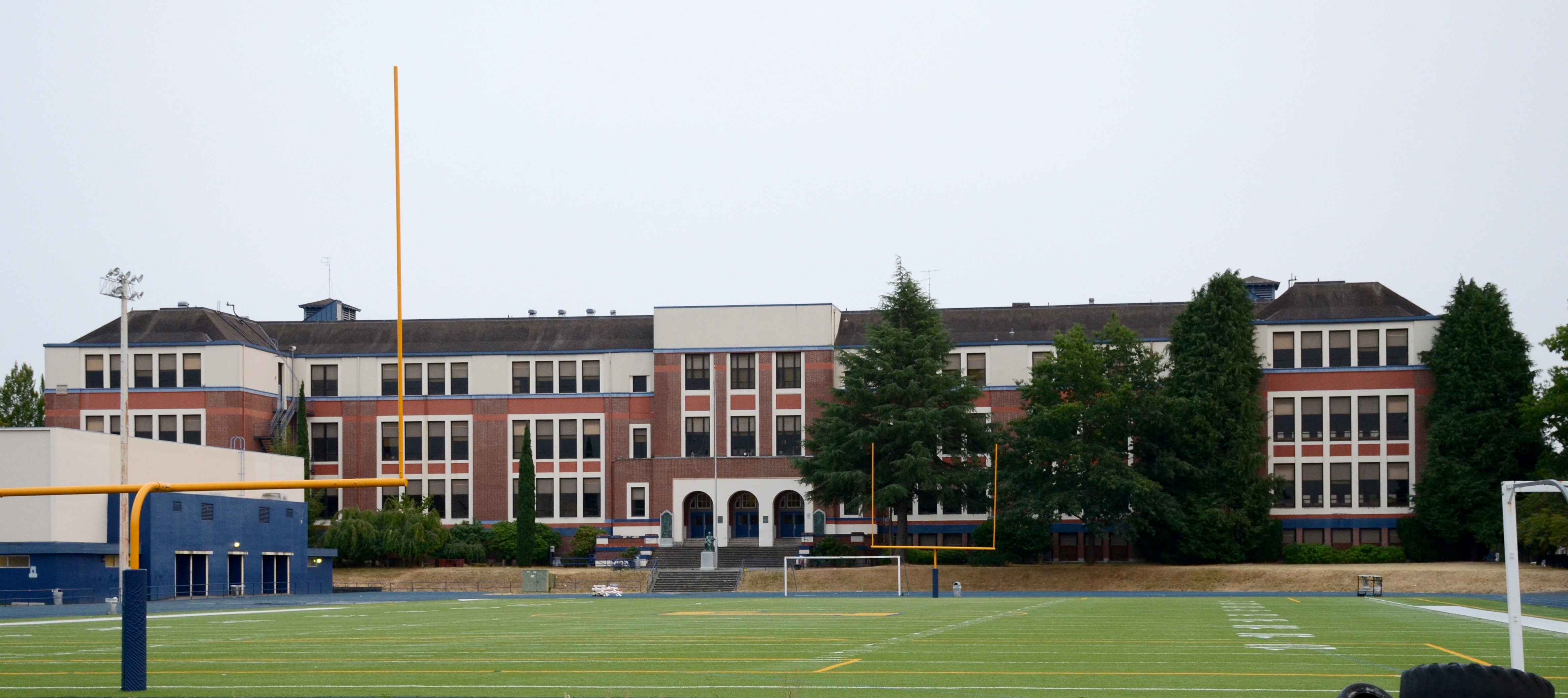 Jefferson High School in Portland, Oregon, viewed from the north, from Killingsworth Street.